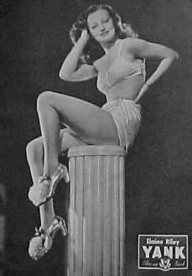 Pin-up photo of Elaine Riley for the Oct. 6, 1944 issue of Yank, the Army Weekly, a weekly U.S. Army magazine fully staffed by enlisted men.